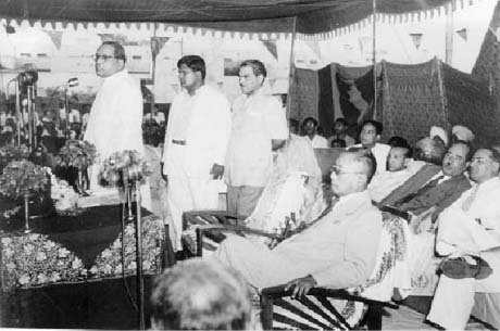 Dr. Babasaheb Ambedkar speaking on Buddha Jayanti on 2 May 1950